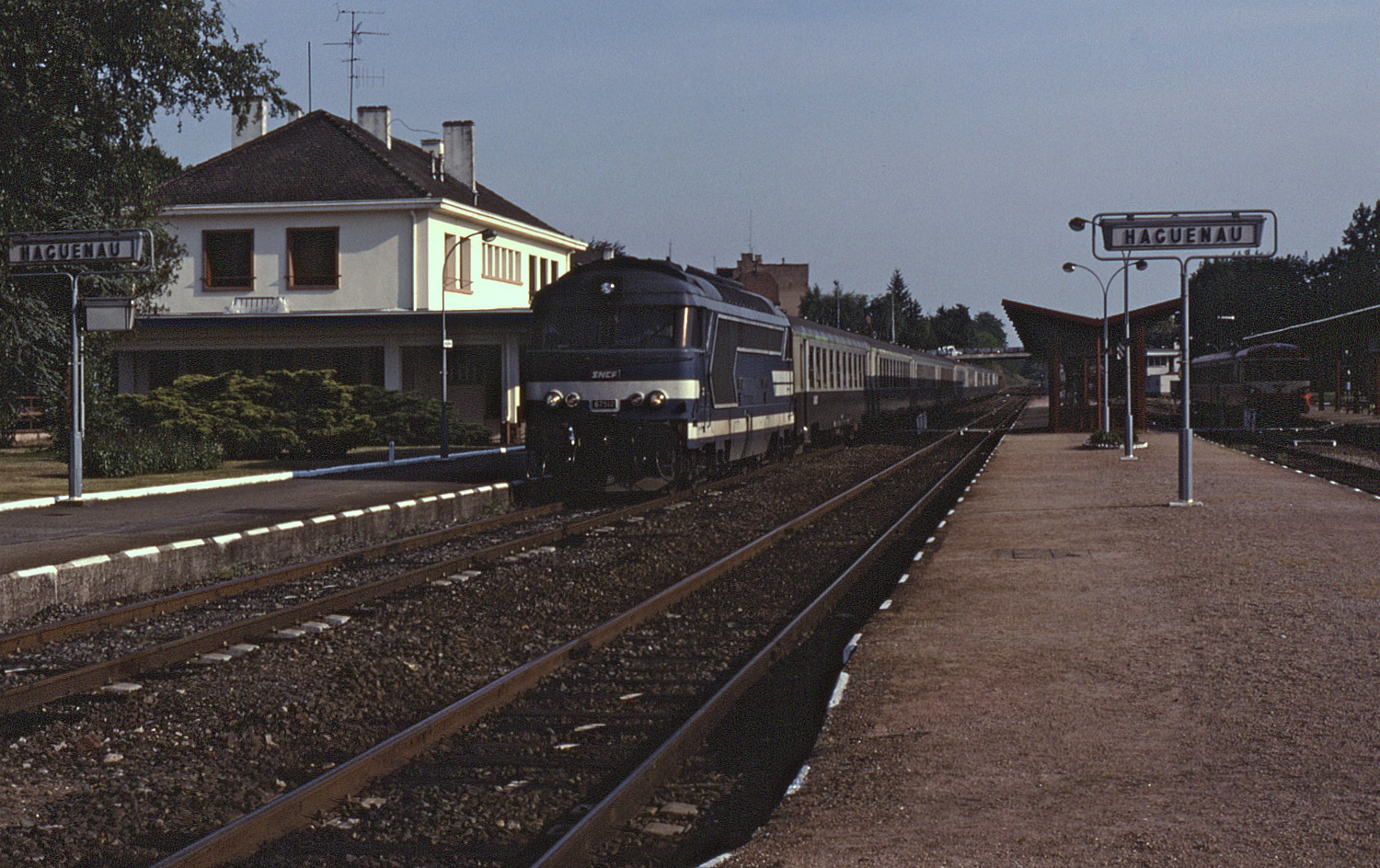 Evening commuter trains out of Strasbourg on several lines saw class BB 67400s on long trains of USI coaches in green and grey livery. Seen at Hagenau on 5 June 1991 is BB 67572.